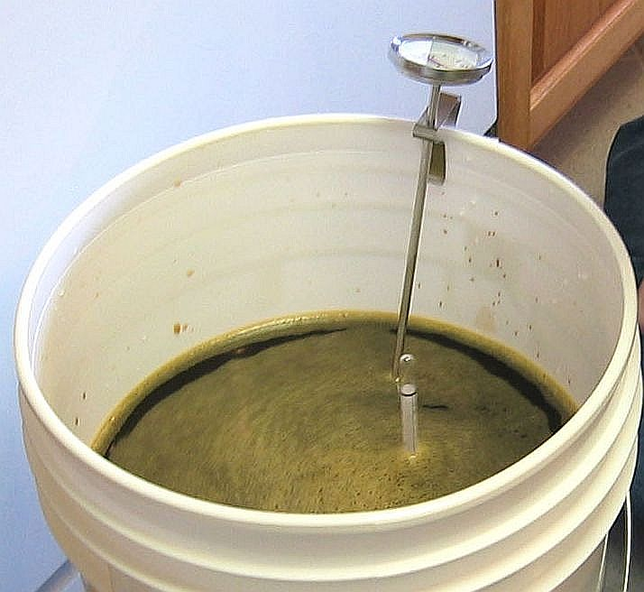 Checking the specific gravity of a batch of homebrew beer.